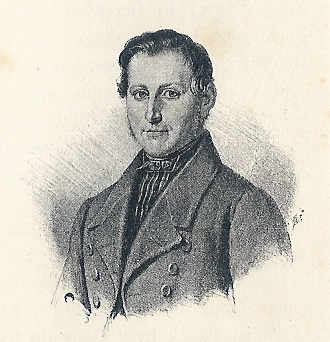 Laurids Skau. 1817-1864.